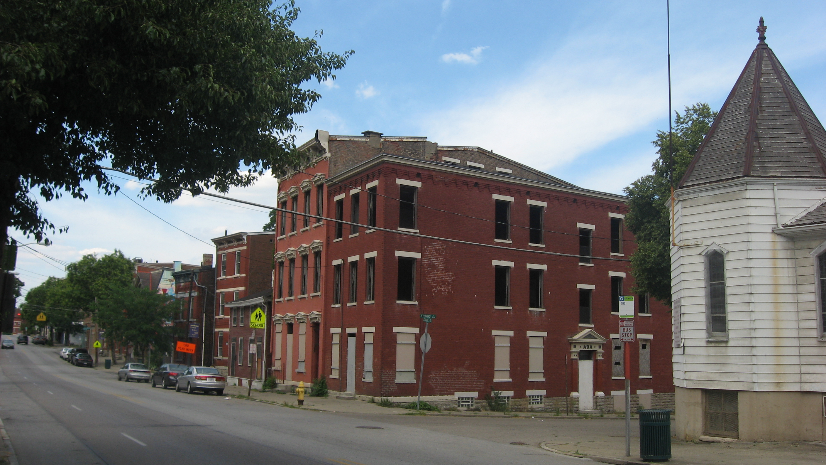 Buildings on the eastern side of State Avenue (State Route 264) on the northern side of the Storrs Street intersection (plus the State Avenue Methodist Church on the southern side) in the Lower Price Hill neighborhood of Cincinnati, Ohio, United States. This neighborhood is part of the Lower Price Hill Historic District, a historic district that is listed on the National Register of Historic Places.